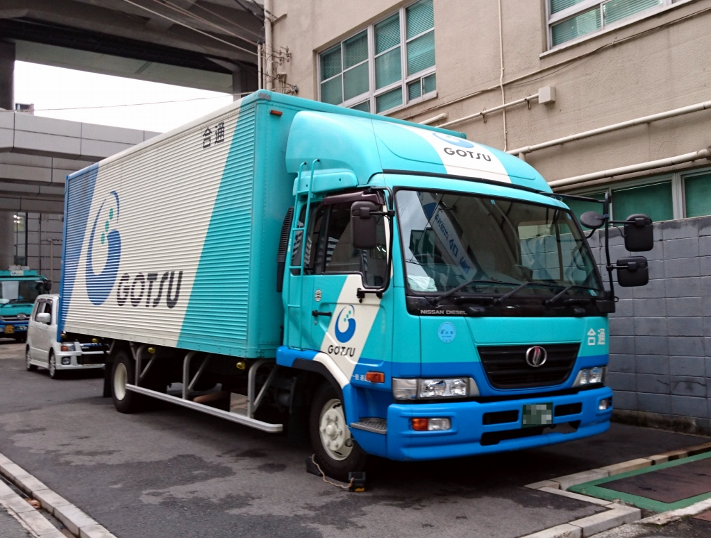 Gotsu Co., Ltd. truck